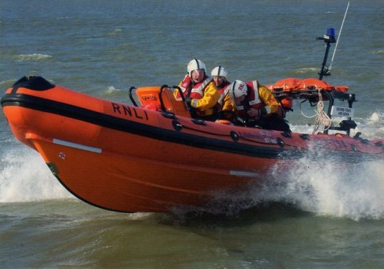 Photograph of the Whitstable Lifeboat, Atlantic Class RNLB Oxford Town and Gown (B 764) just after launching